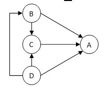 Simple 4 nodes graph